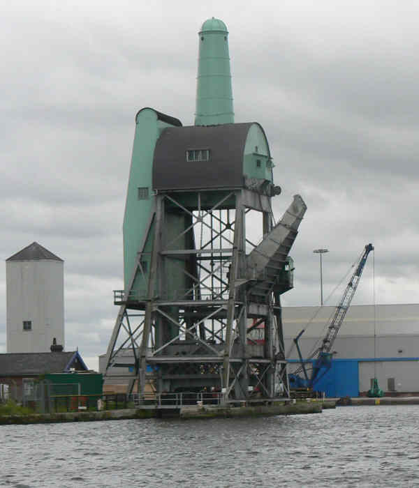 Hoist for Tom Puddings at Goole, East Riding of Yorkshire, England.